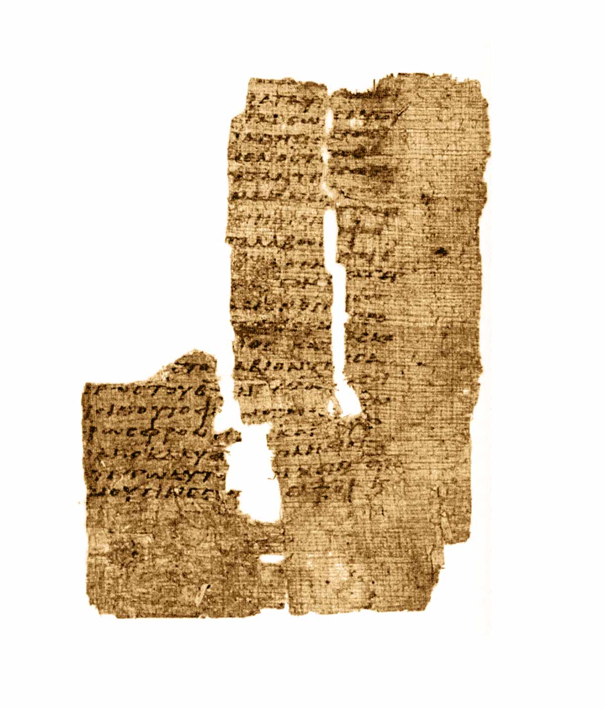 Papyrus 16 - Papyrus Oxyrhynchus 1009 - Cairo Egyptian Museum JE 47424 - Epistle to the Philippians 3:10–17, 4:2–8